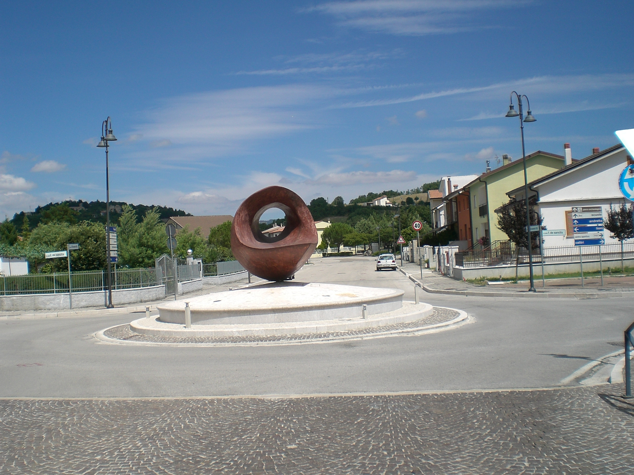 A place of new Conza